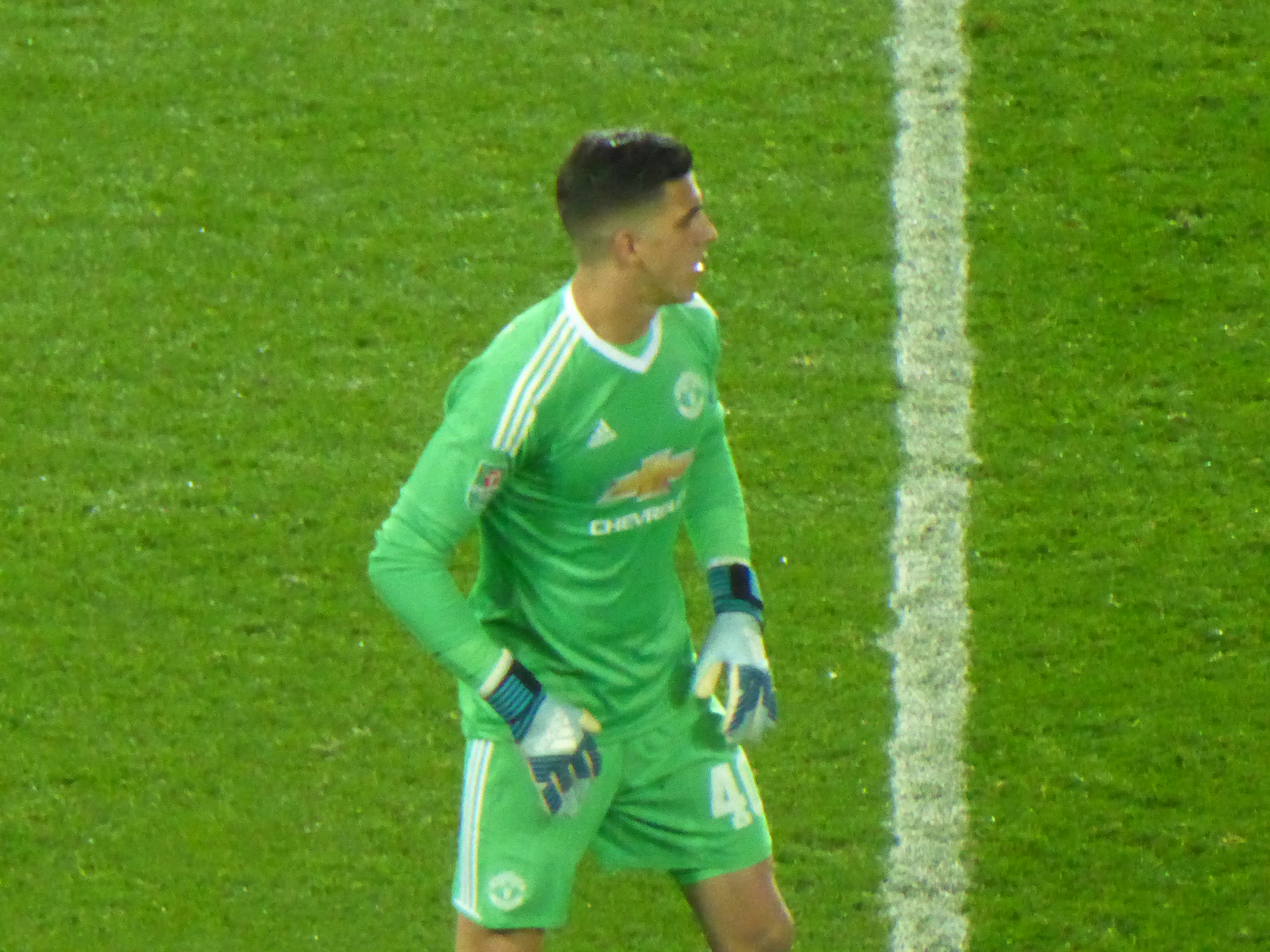 Manchester United v Burton Albion (4-1), Carabao Cup, Old Trafford, Manchester, Greater Manchester, England, 20 September 2017